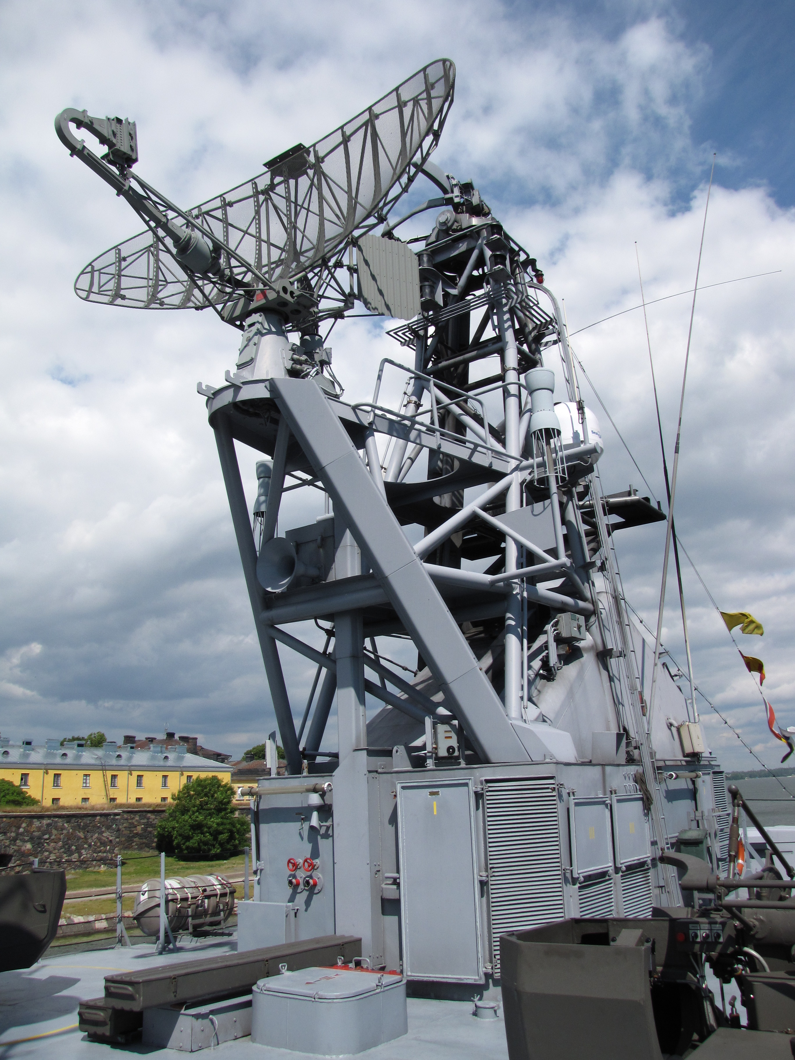 Finnish minelayer Pohjanmaa (01) rear mast and Signaal DA05 radar antenna.